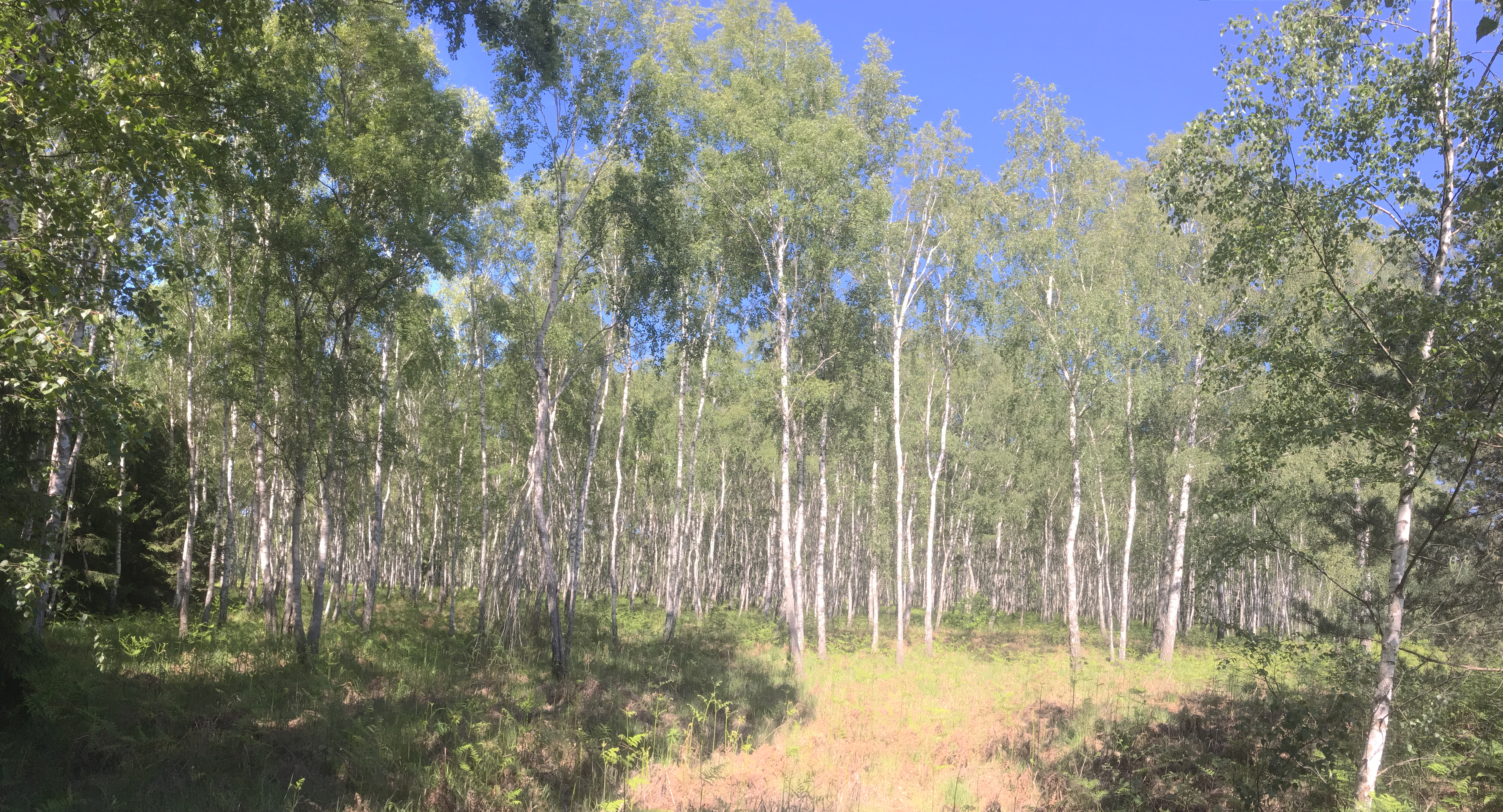 Nature reserve area Hermannsdorf, near Weißwasser/O.L.